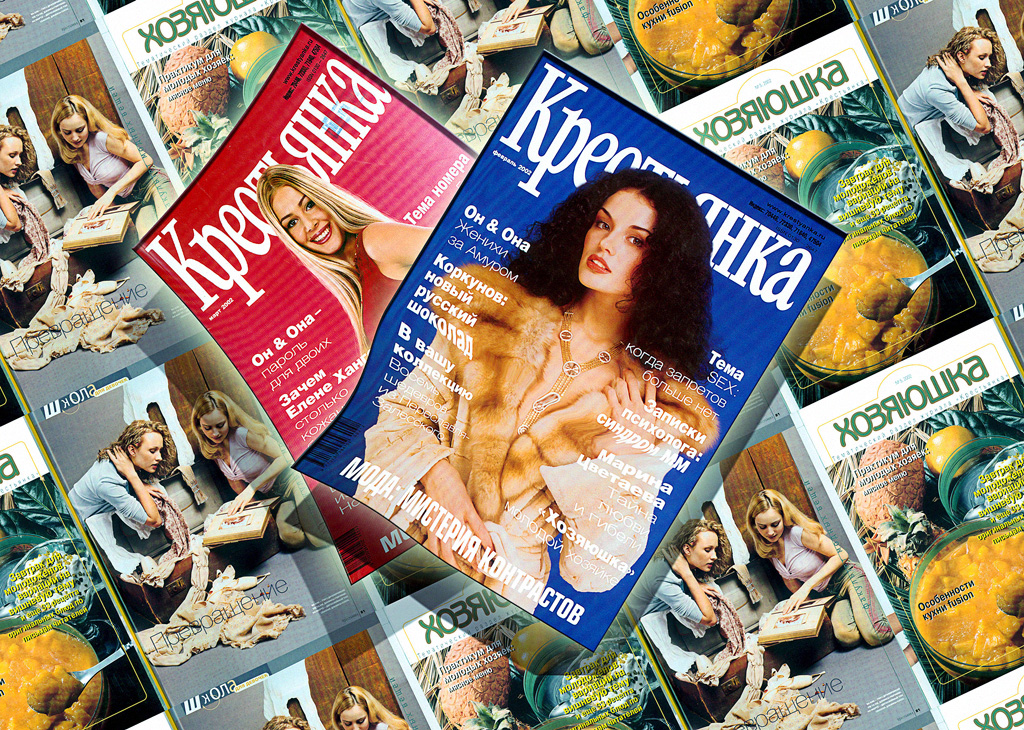 “Krestyanka magazine”. Krestyanka magazine is the most sold national magazine dedicated to a family life. Magazine's monthly circulation is 140 000. The magazine publishes since 1922.